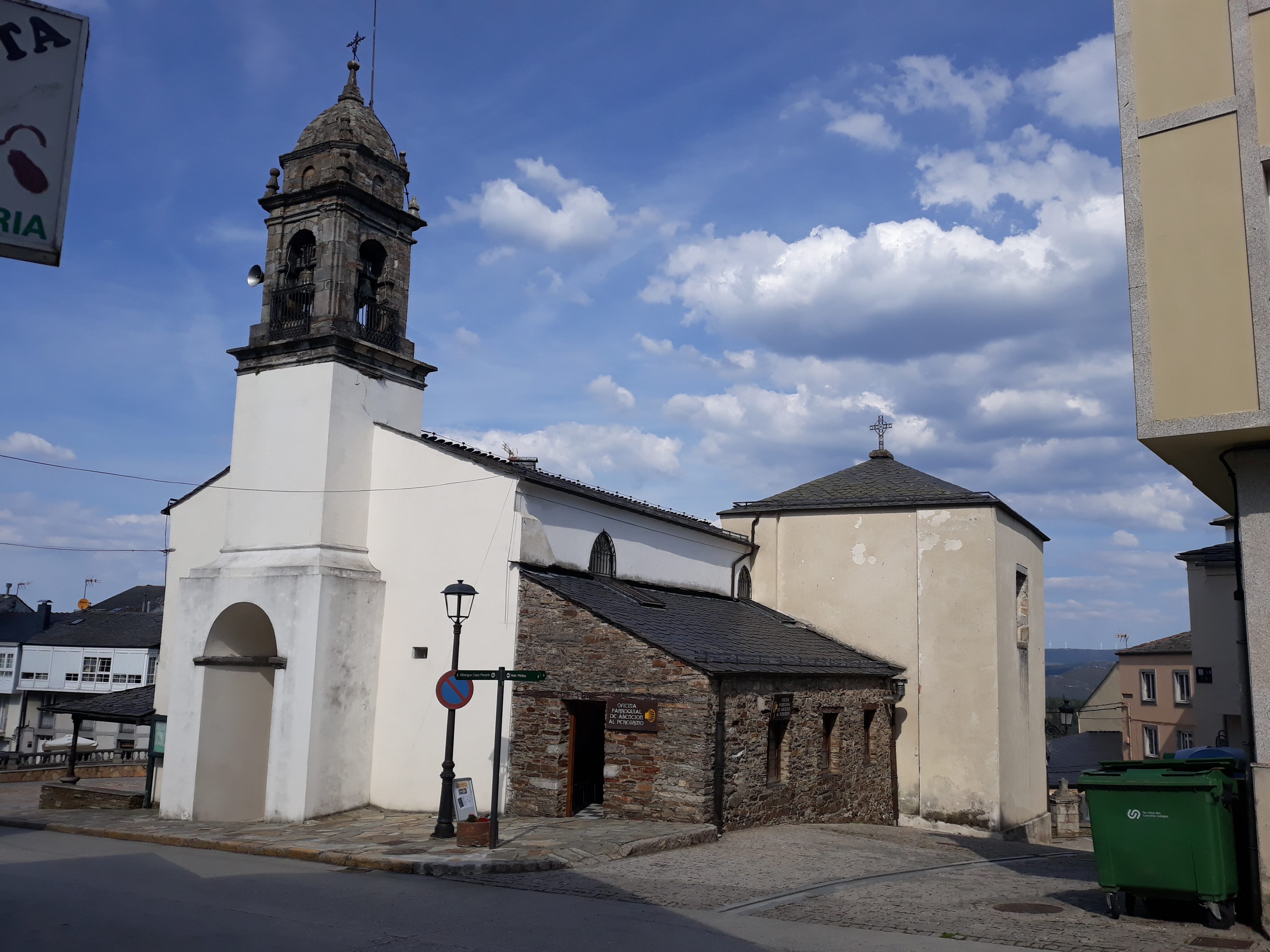 St. Mary's Roman Catholic church, Fonsagrada, Lugo Province, Galicia, Spain.